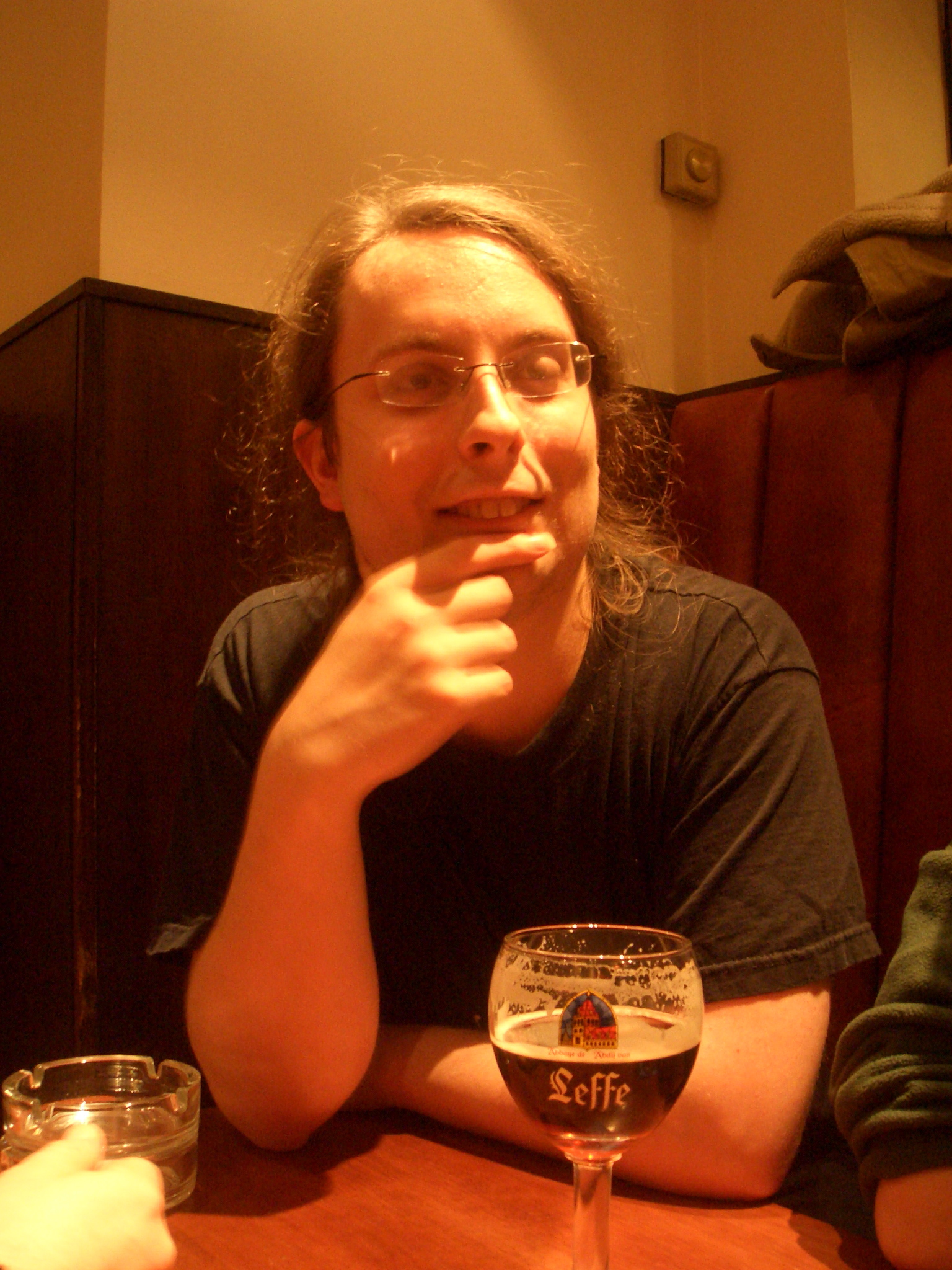 Hugh Hancock, founder of the machinima production group Strange Company and author of Machinima for Dummies